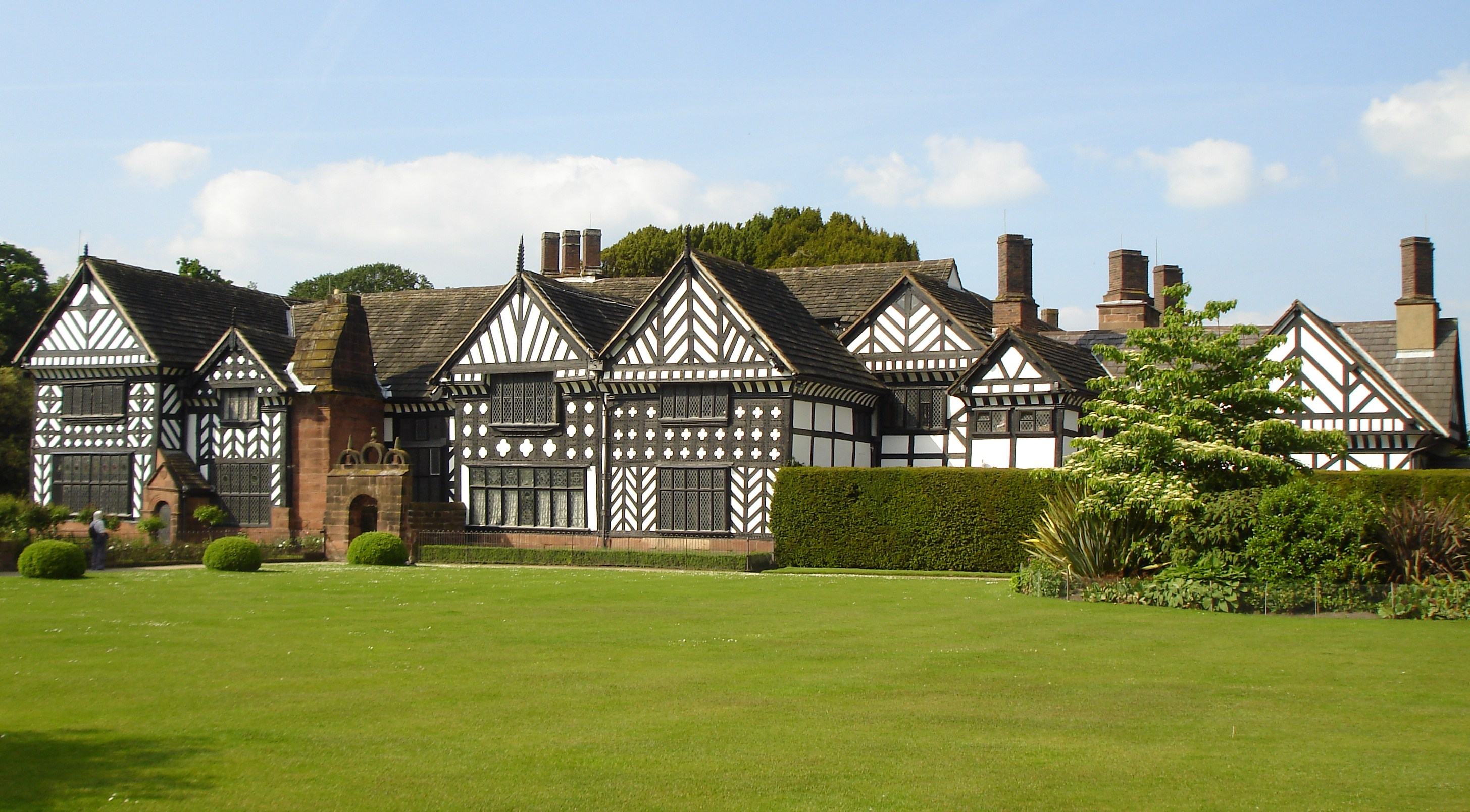 View of the rear elevation of Speke Hall across the garden